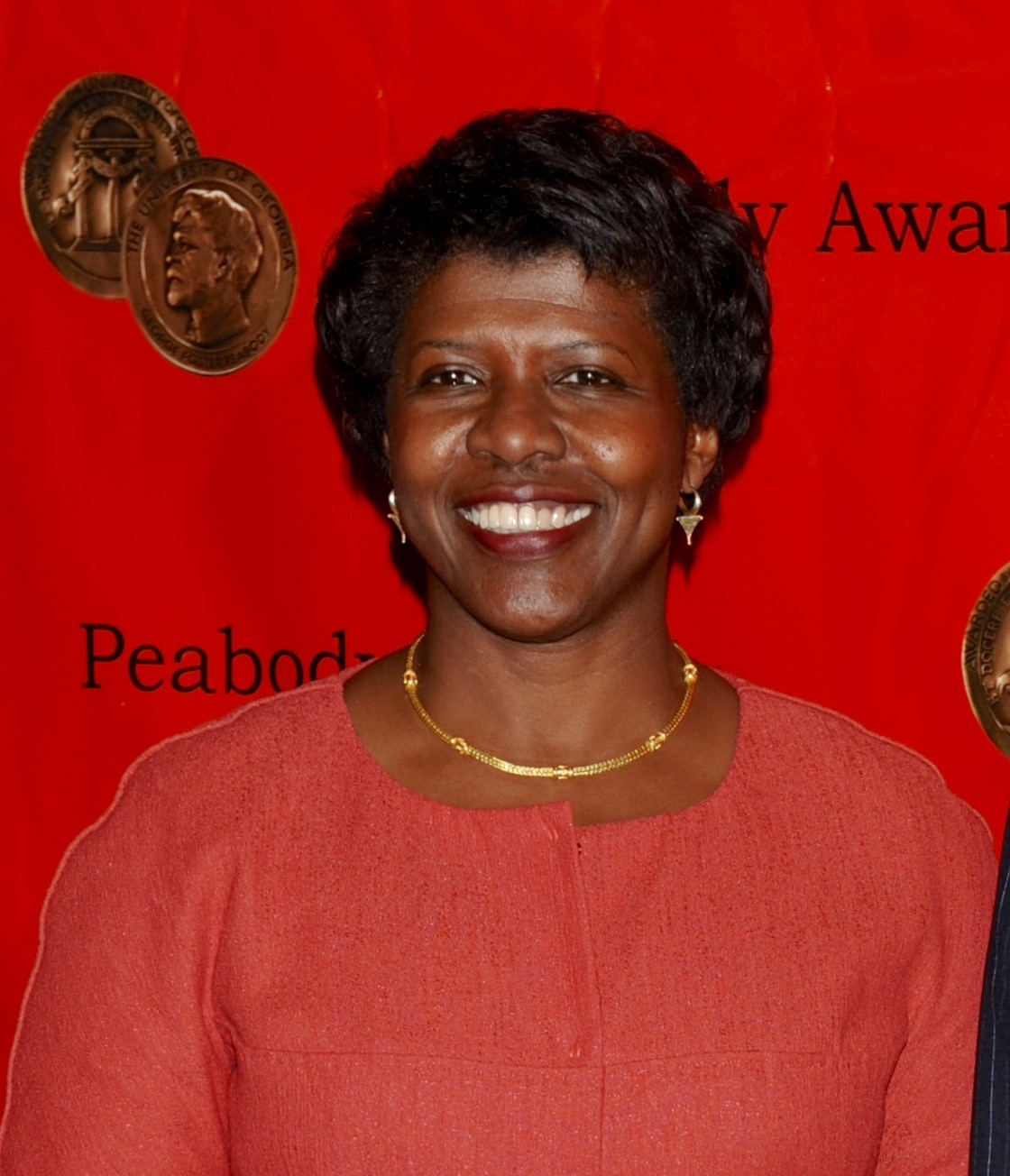 Gwen Ifill at the 68th Annual Peabody Awards Luncheon, at the Waldorf-Astoria Hotel in New York, in May 2009. Photo credit: Anders Krusberg / Peabody Awards.